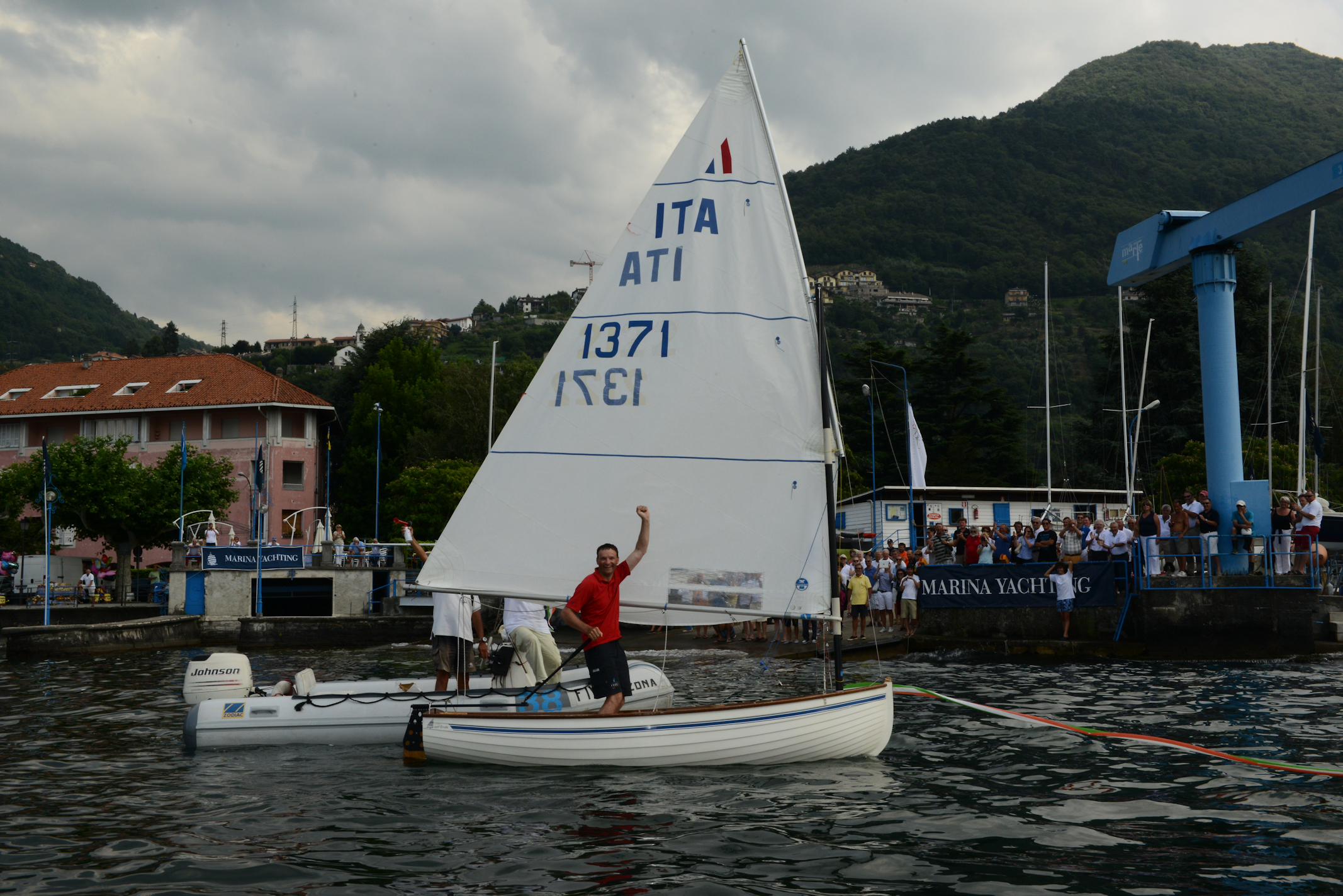 Winning the Vintage InterPares